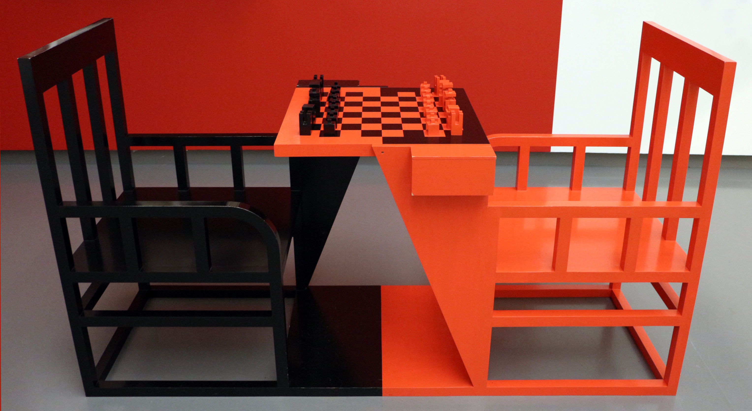 Collections of the Van Abbemuseum